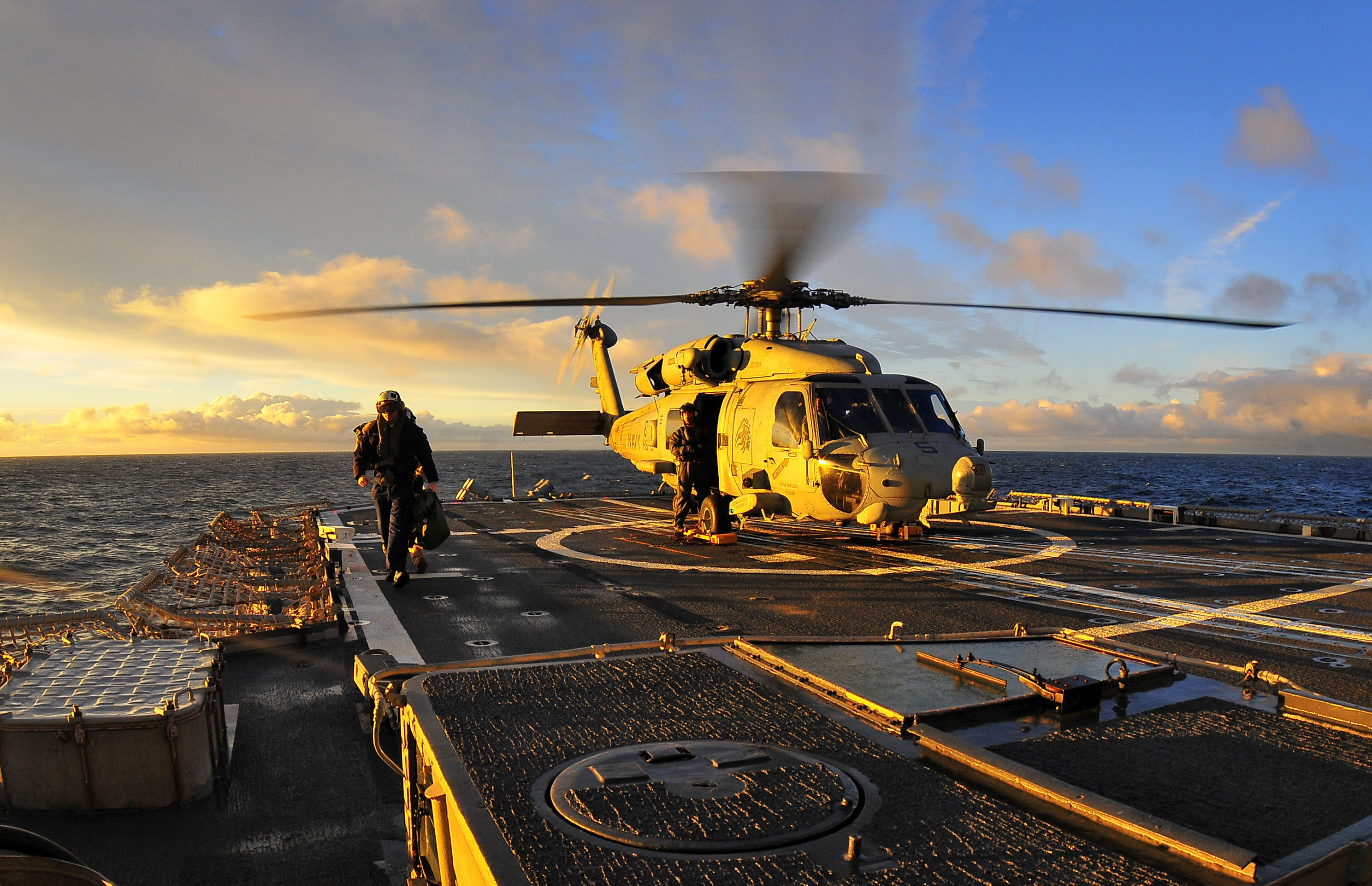 ATLANTIC OCEAN (March 8, 2010) Aboard the guided-missile cruiser USS Bunker Hill (CG 52), an aircrew member exits an SH-60F Sea Hawk helicopter, assigned to the Red Lions‚ of Helicopter Anti-submarine Squadron (HS) 15, during a passenger transfer with the aircraft carrier USS Carl Vinson (CVN 70). Bunker Hill and Carl Vinson are participating in Southern Seas 2010, a U.S. Southern Command-directed operation that provides U.S. and international forces the opportunity to operate in a multi-national environment. (U.S. Navy photo by Mass Communication Specialist 2nd Class Daniel Barker/Released)